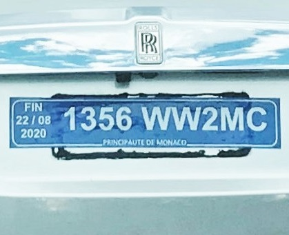 2020 monaco provisional plate, seen in FL